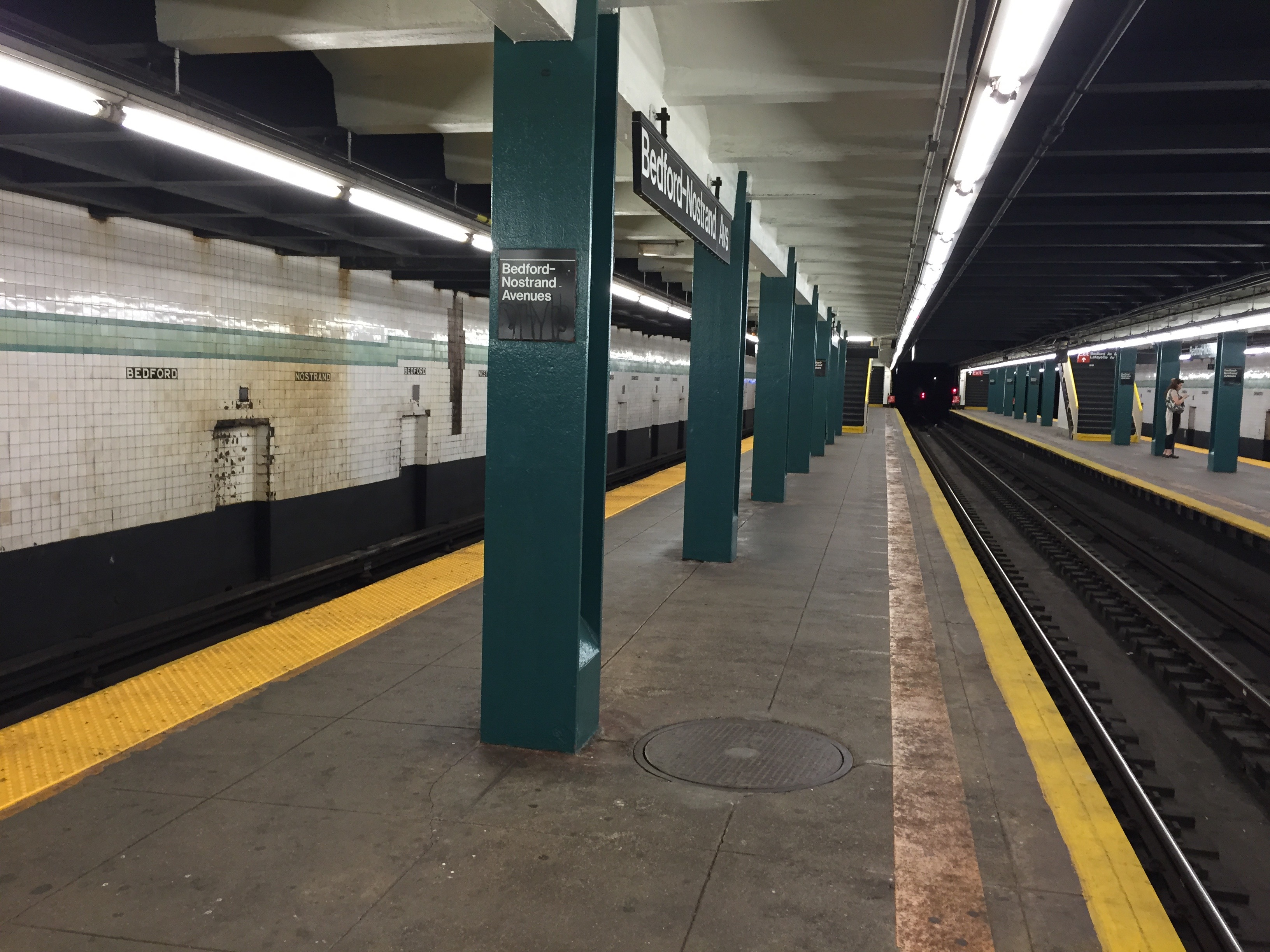 Queens bound platform at the Bedford-Nostrand Avs G station.